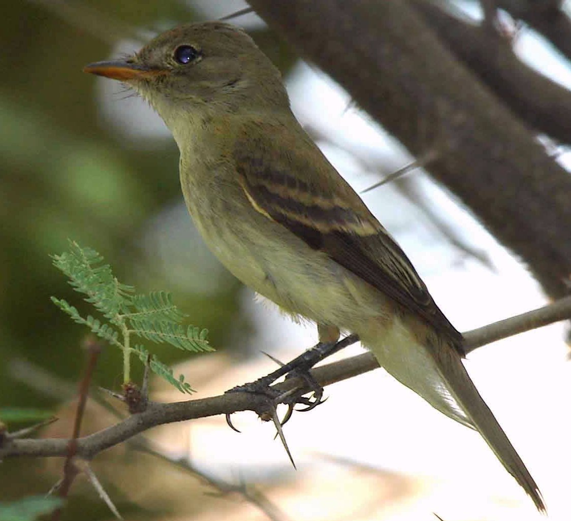 Southwestern Willow Flycatcher (Empidonax traillii extimus), federally-listed as endangered under the Endangered SpeciesAct as amended.